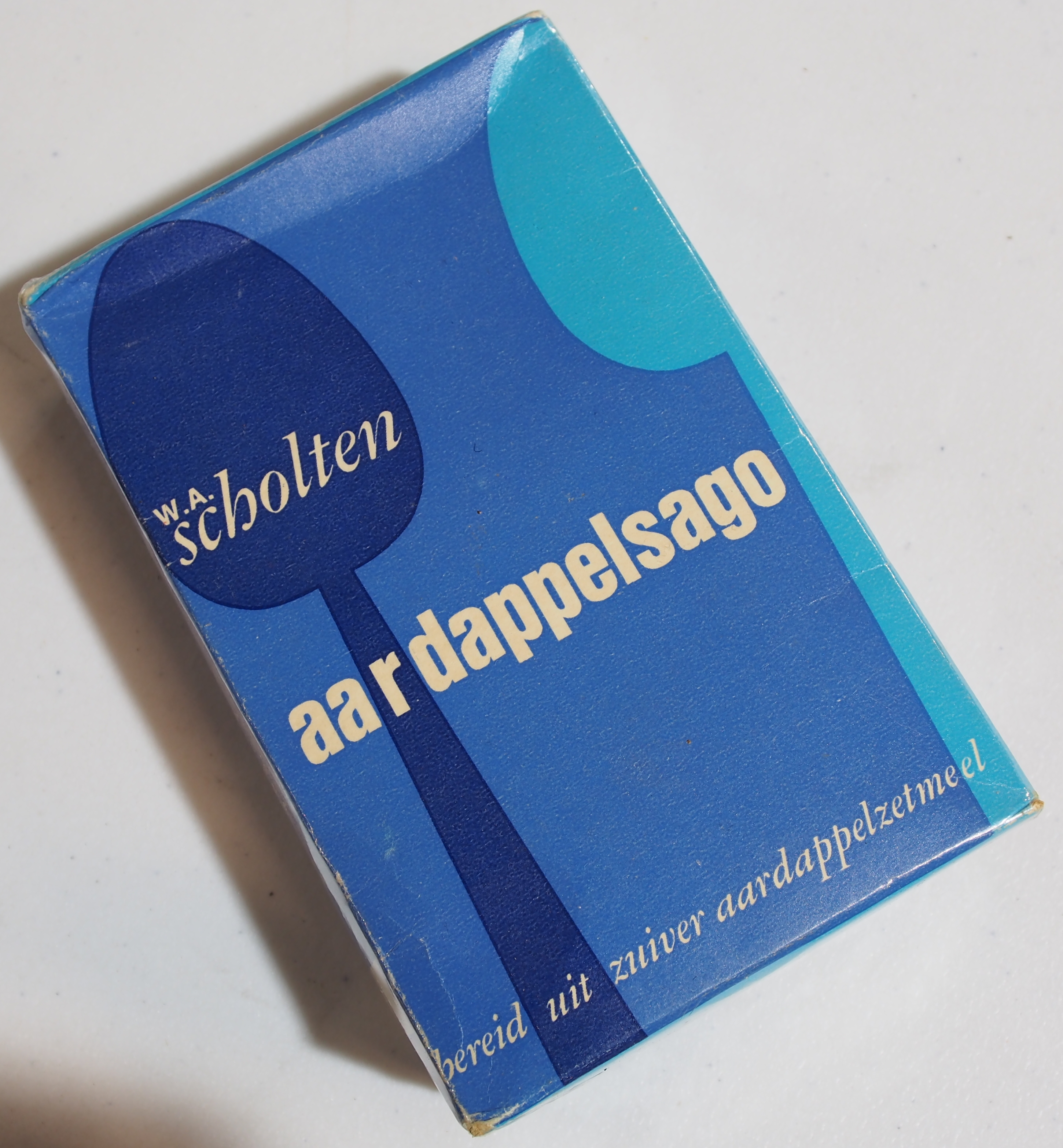 Old product that is not produced and not sold anymore for a very long time and the company does not exist anymore either.